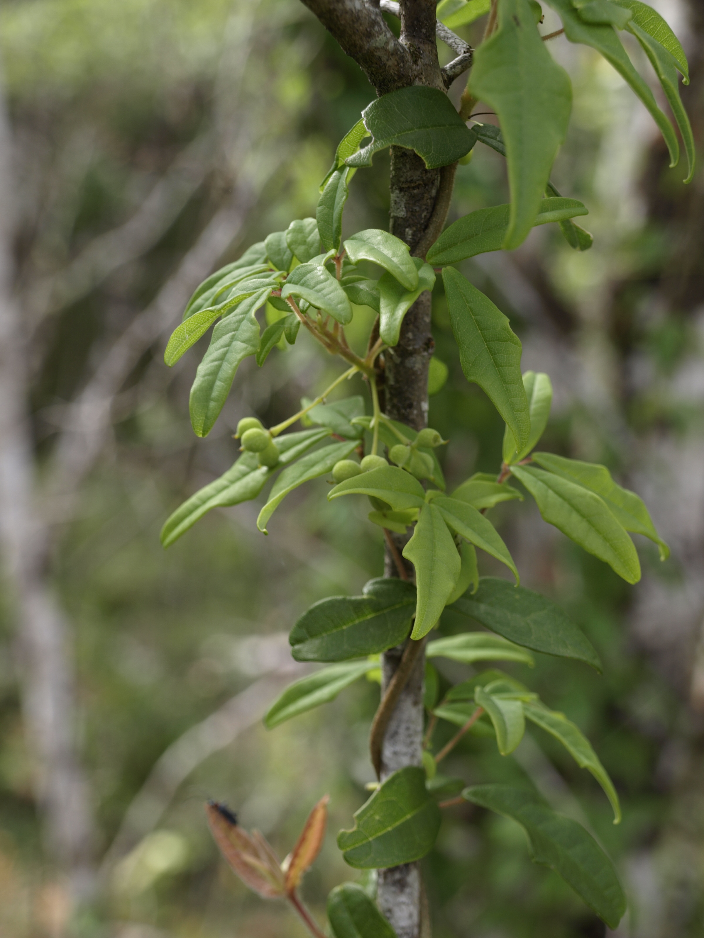 Boquila trifoliolata. Near Saltos de Rio Petrohue. slopes of Volcan Osorno, vicinity of Lago Llanquihue, Chile.